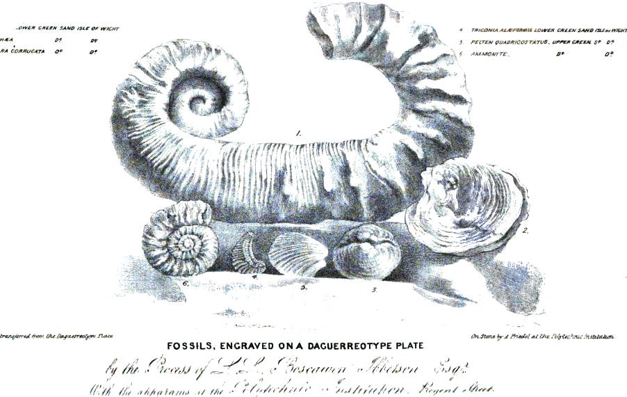 "Fossils Engraved on a Daguerreotype Plate," lithograph by A. Friedel of the Polytechnic Institute, where Ibbetson carried out his earlier experiments on daguerretotypes and photography.[1] [2]